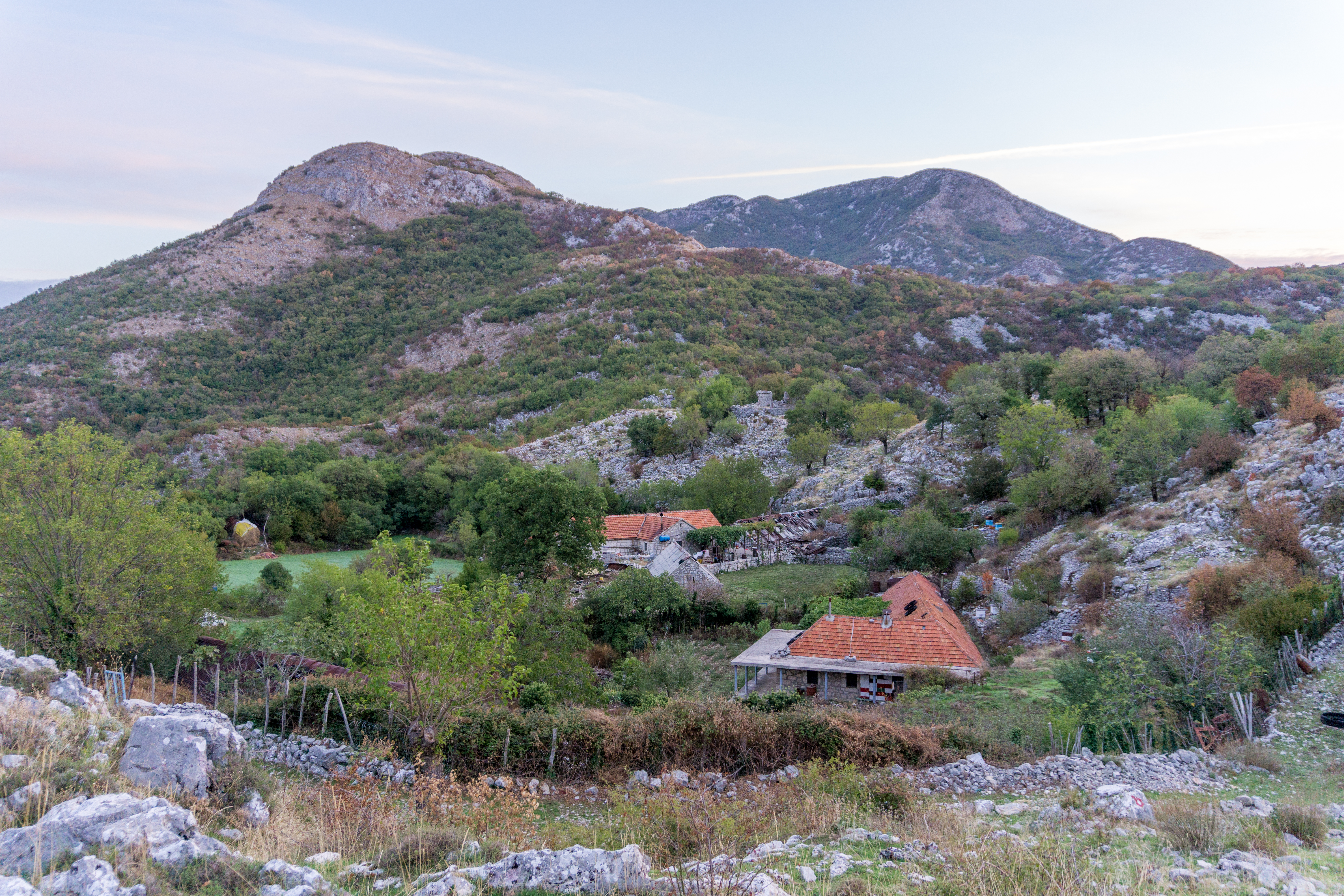 A small settlement. Picture taken during hiking the Primorska Planinarska Transverzala (PPT; Mountaineering Coastal Transversal) in Montenegro